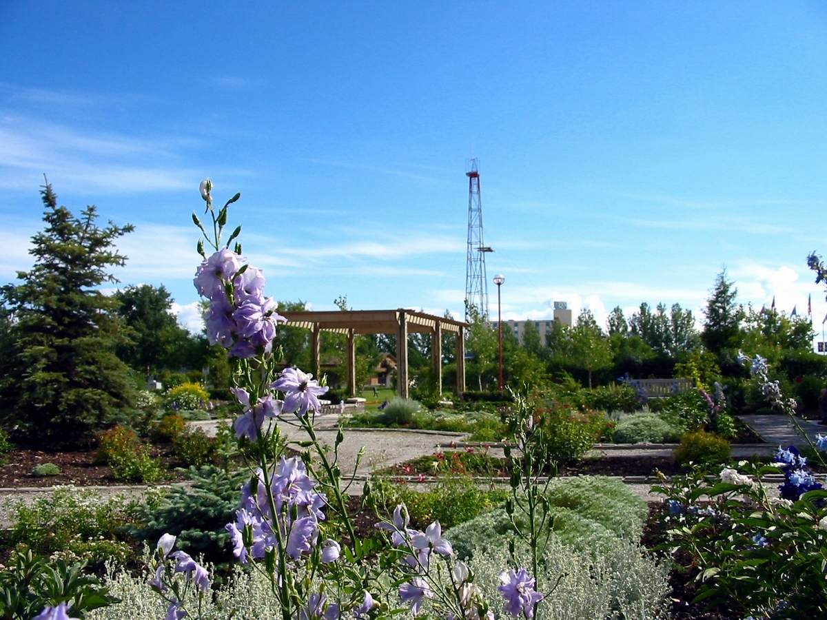 Park in Fort St. John, British Columbia, Canada